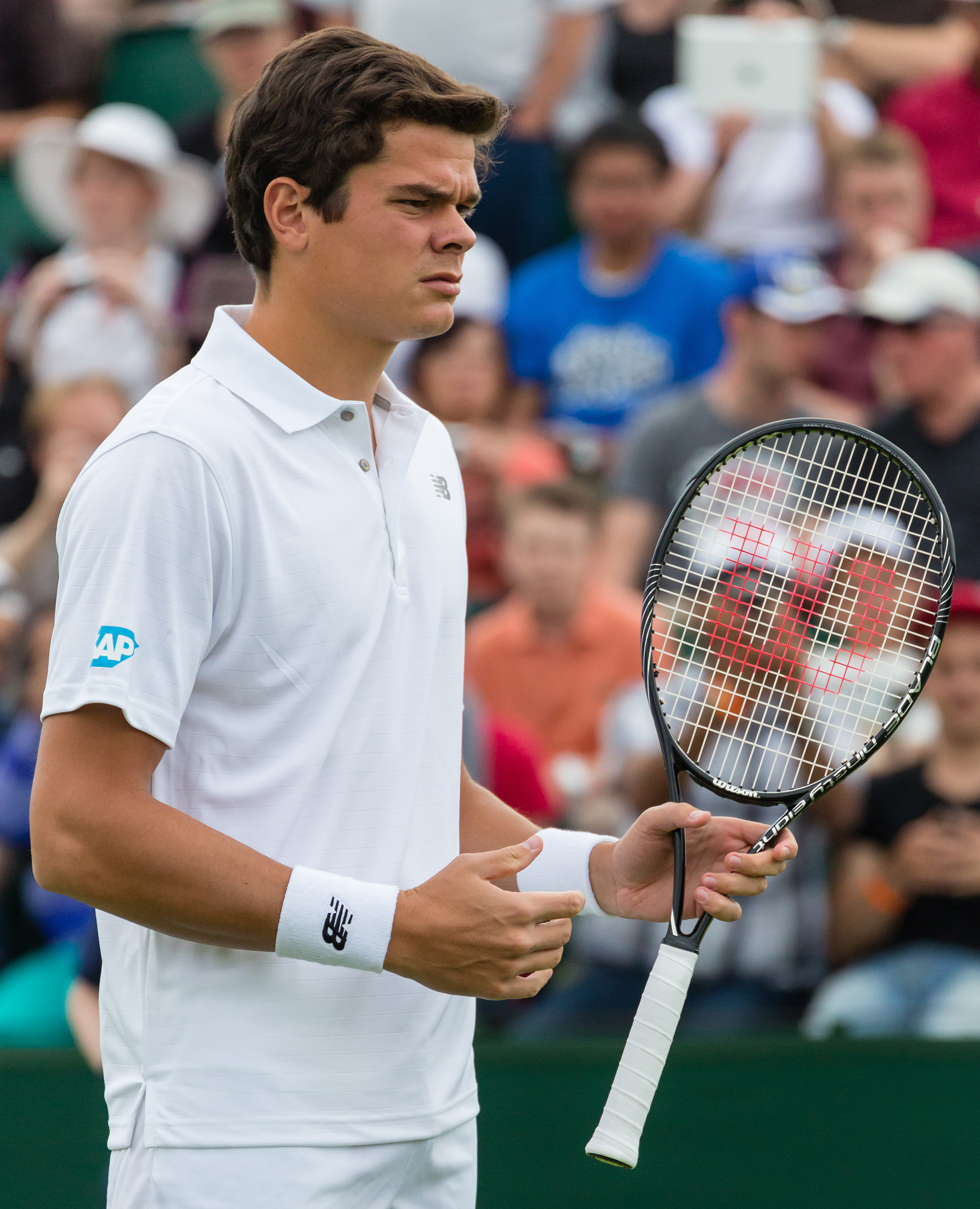 Milos Raonic at the 2013 Wimbledon Championship.